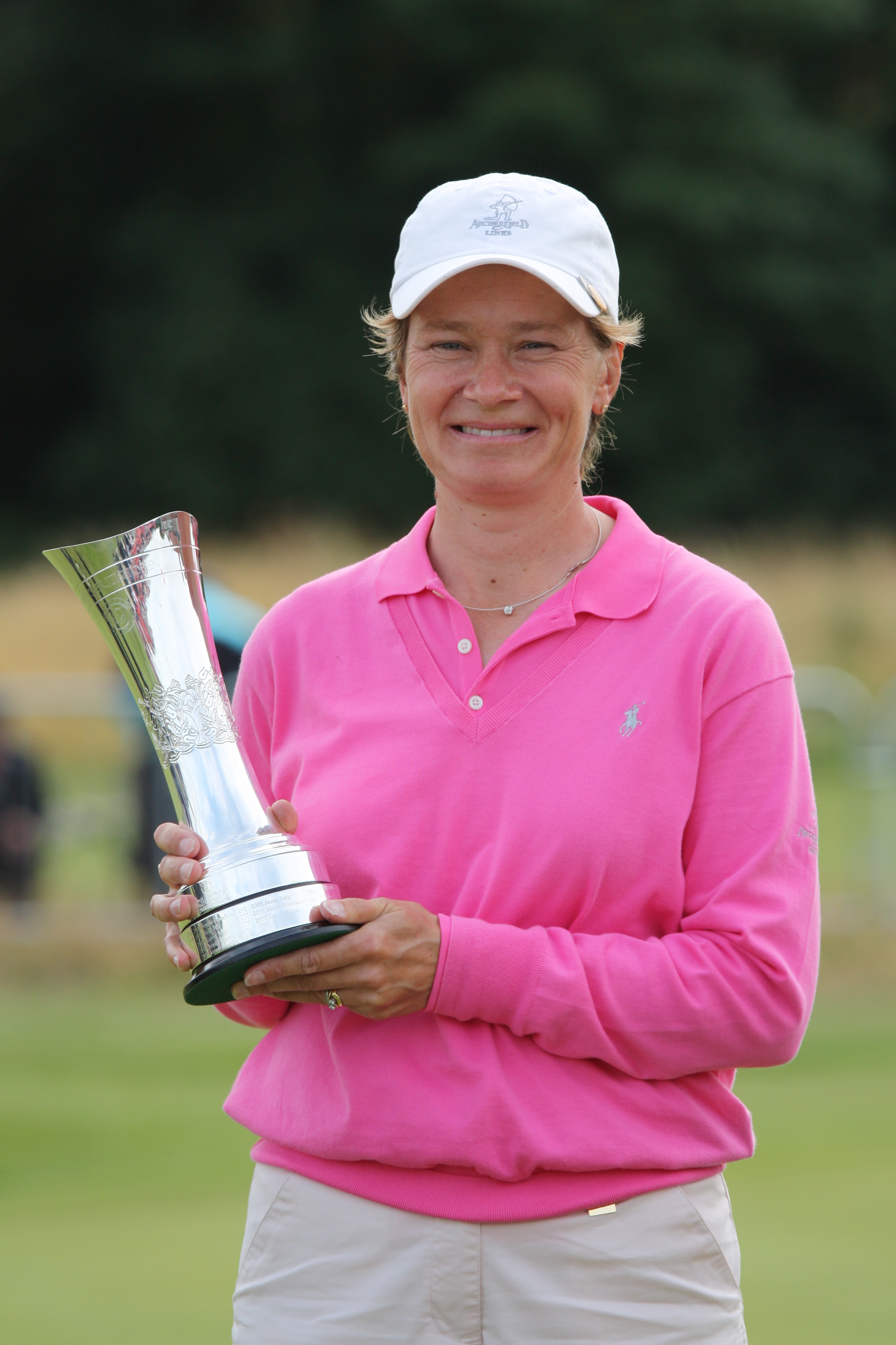 LYTHAM ST ANNES, UNITED KINGDOM – AUGUST 02: Catriona Matthew of Scotland posing with the trophy at the 18th green after winning 2009 Ricoh Women's British Open held at Royal Lytham & St Annes on August 2, 2009 in Lytham St Annes, England. (Photo by Wojciech Migda)